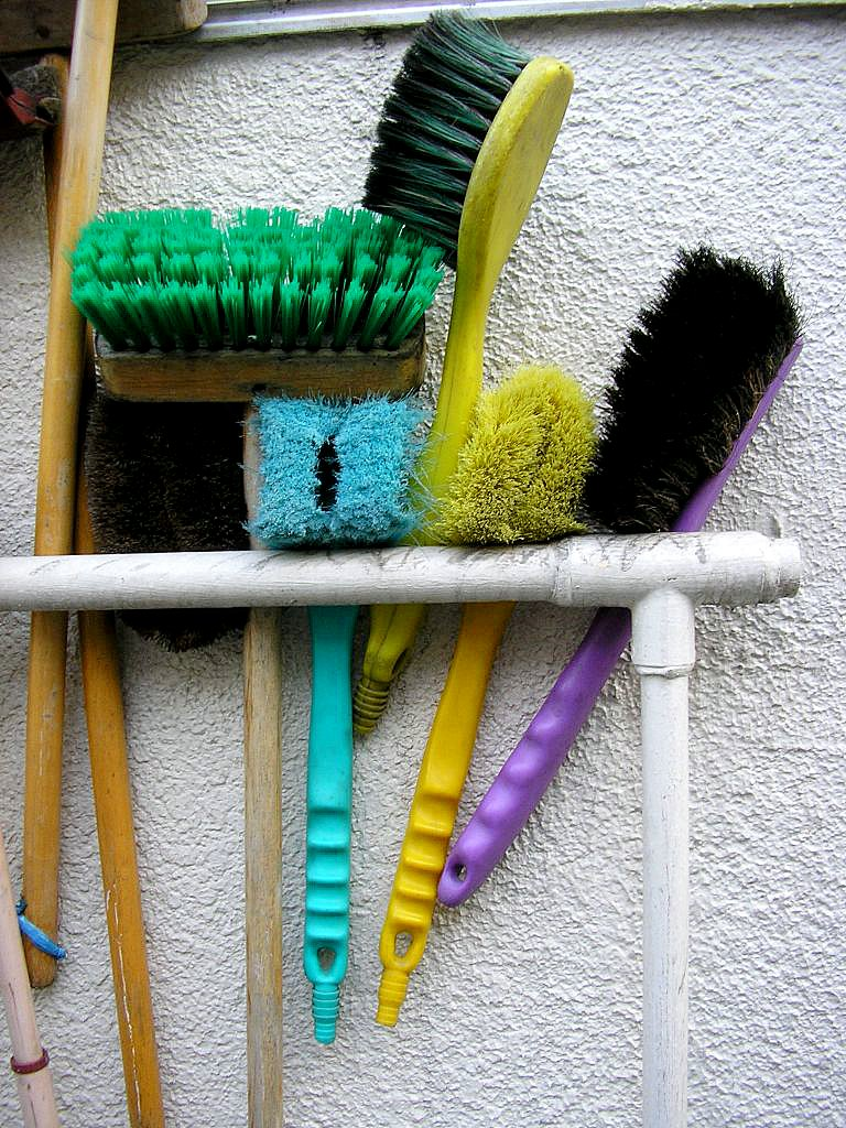 A number of cleaning brushes.